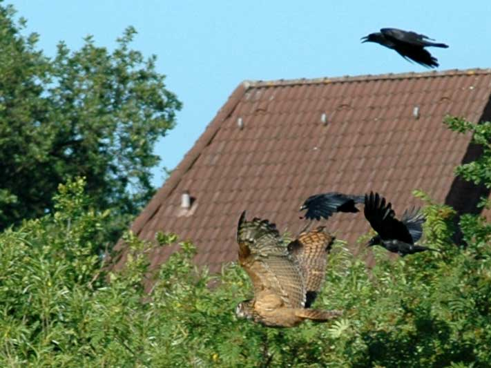 Eurasian eagle owl (Bubo bubo), chased by carrion crows